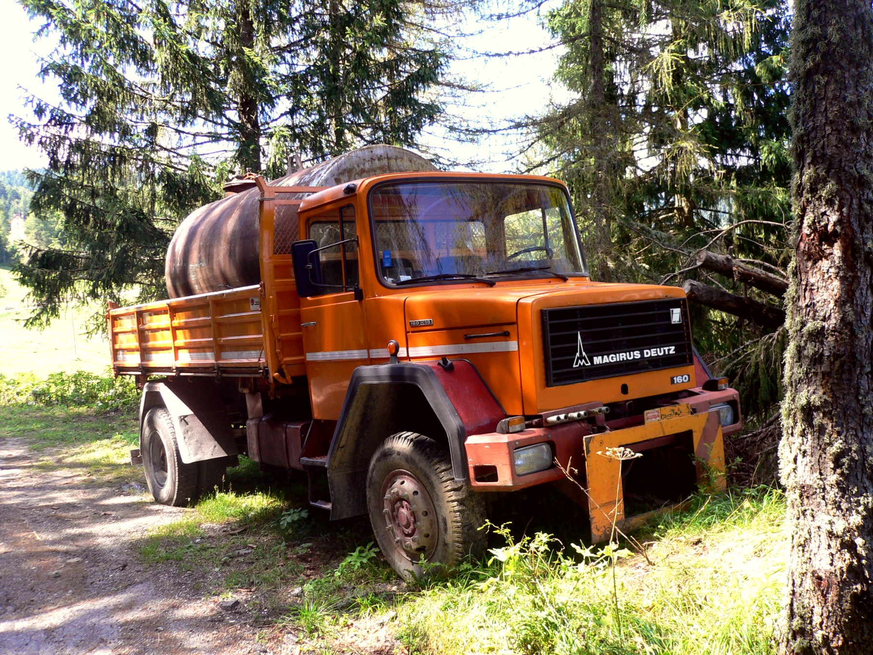 Magirus Deutz 160D15